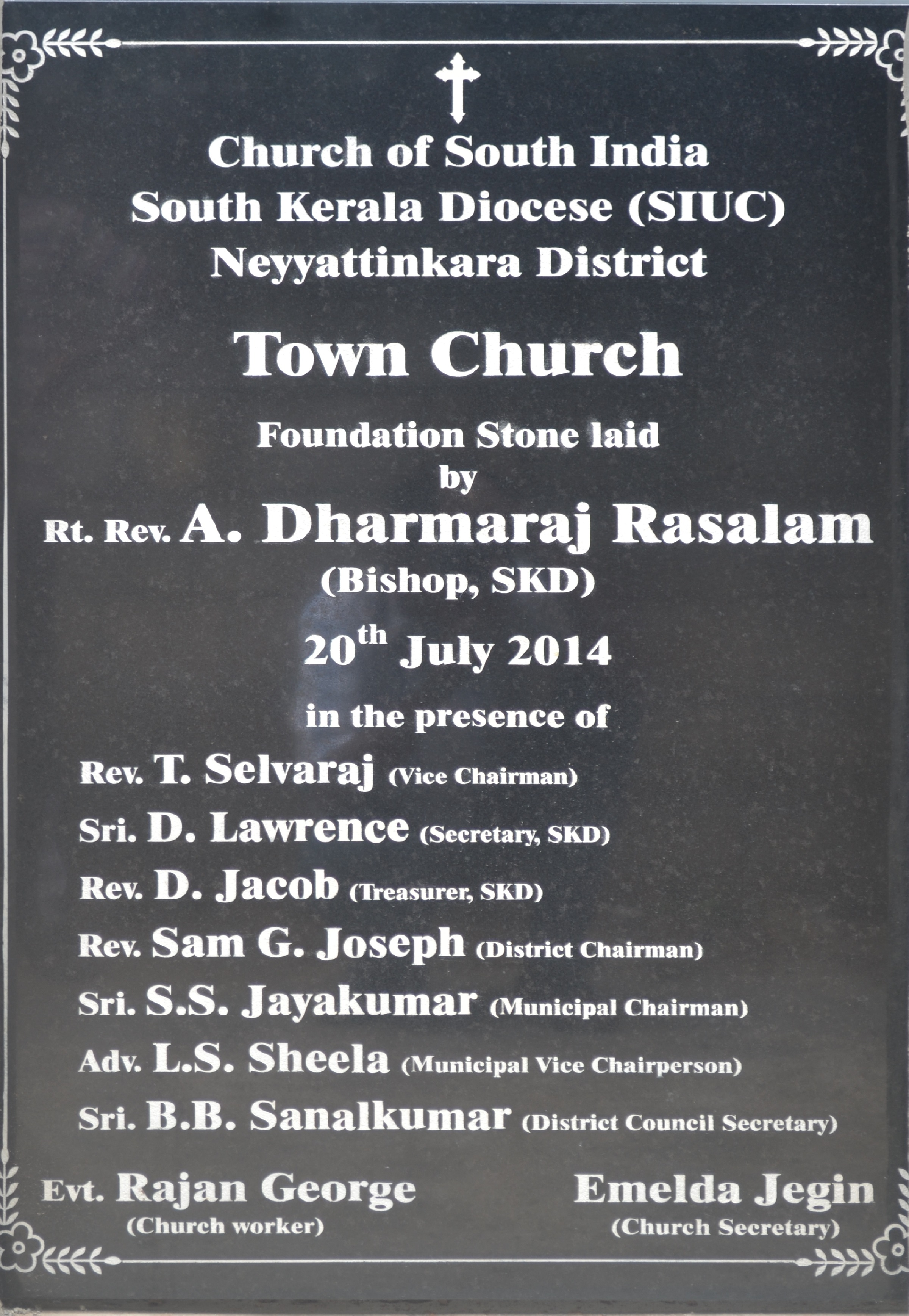 This is the foundation stone or corner stone of C S I Town Church, Christ Nagar, Neyyattinkara and it was laid on 2oth July, 2014 by Rt. Rev. A Dharmaraj Rasaalam, bishop of South Kerala Diocese.